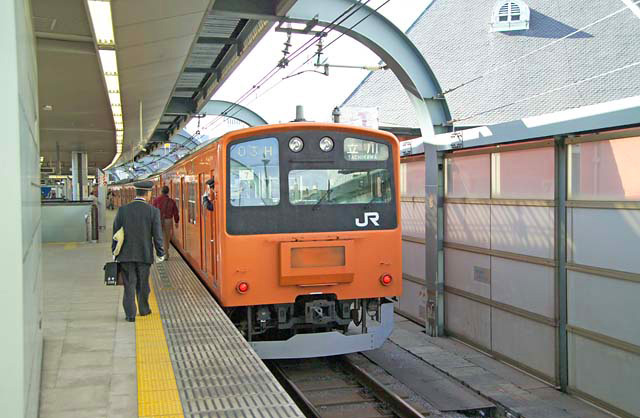 JR 201 (Chuo Rapid Line version) at Tokyo Station